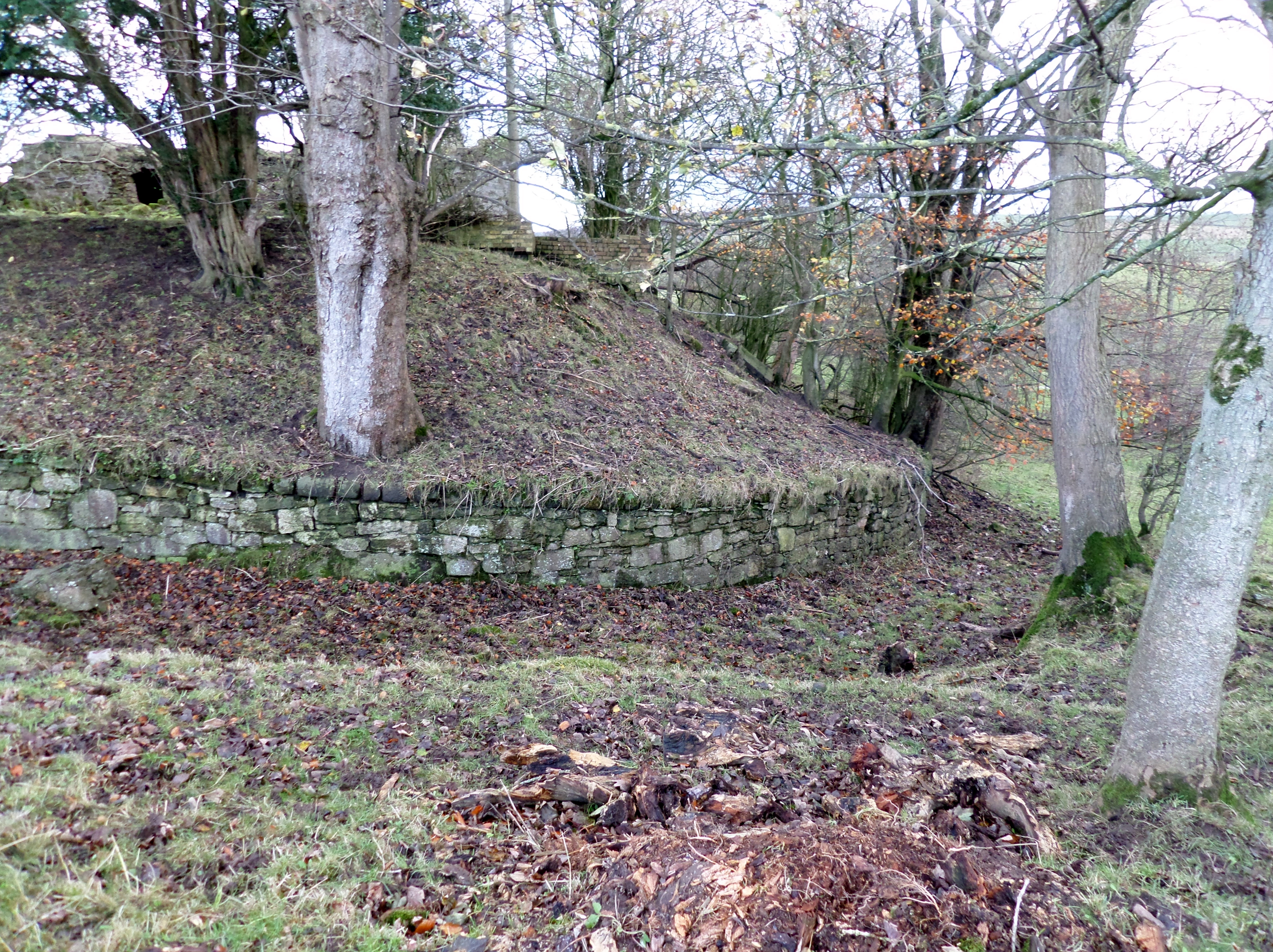 Haining Place, castle mound and Gypsy Path. East Ayrshire, Scotland.